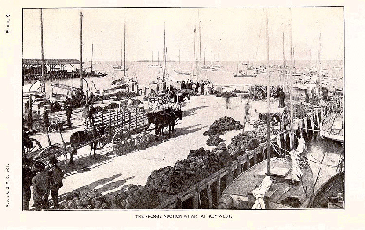 Sponge Auction Wharf at Key West Subject: Sponge fisheries Geographic Subject: United States--Florida--Key West Tag: Commercial Fisheries